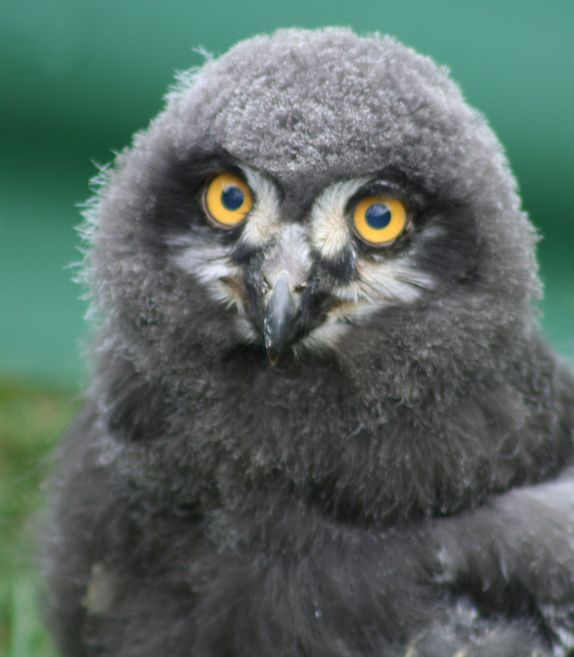 A Snow Owl (Bubo scandiacus) chick in a zoo.